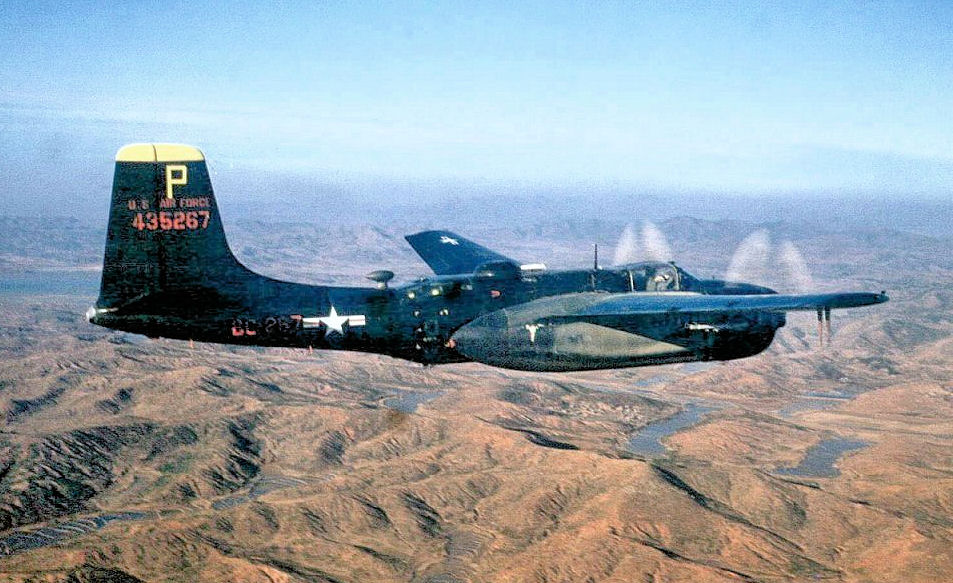 DouglasB-26C-30-DT Invader 44-35267, 8th Bombardment Squadron, Over Korea